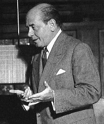 Eugene Ormady, 1951 (cropped)